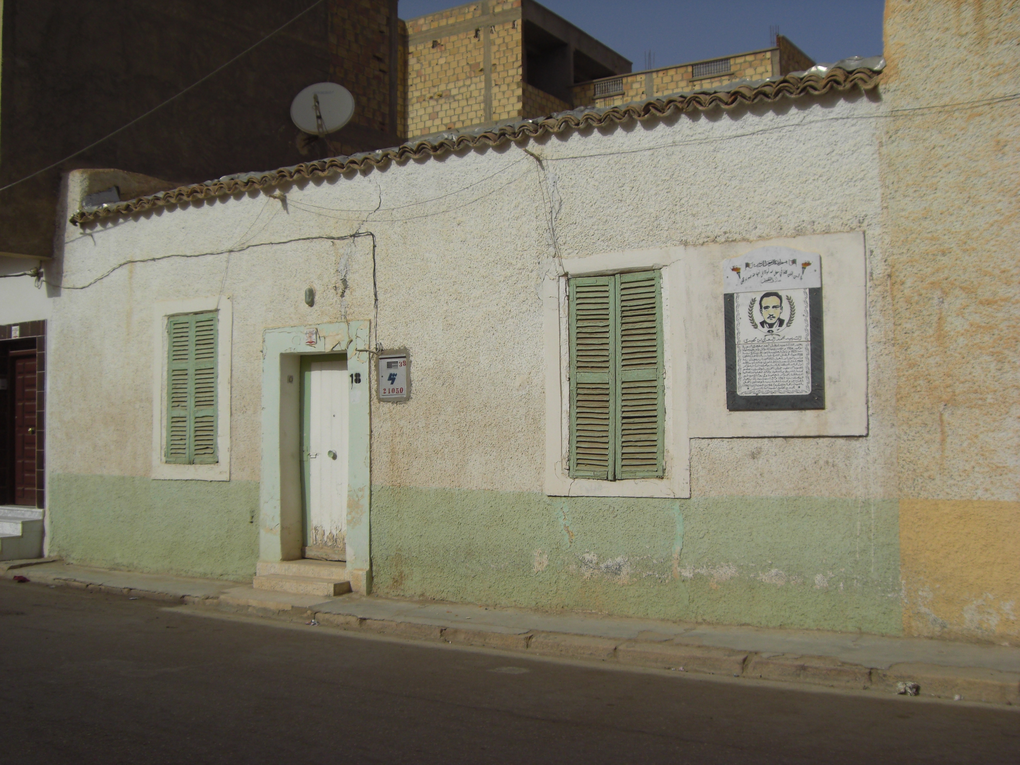 House of Larbi Ben Mhidi in Biskra, Algeria.